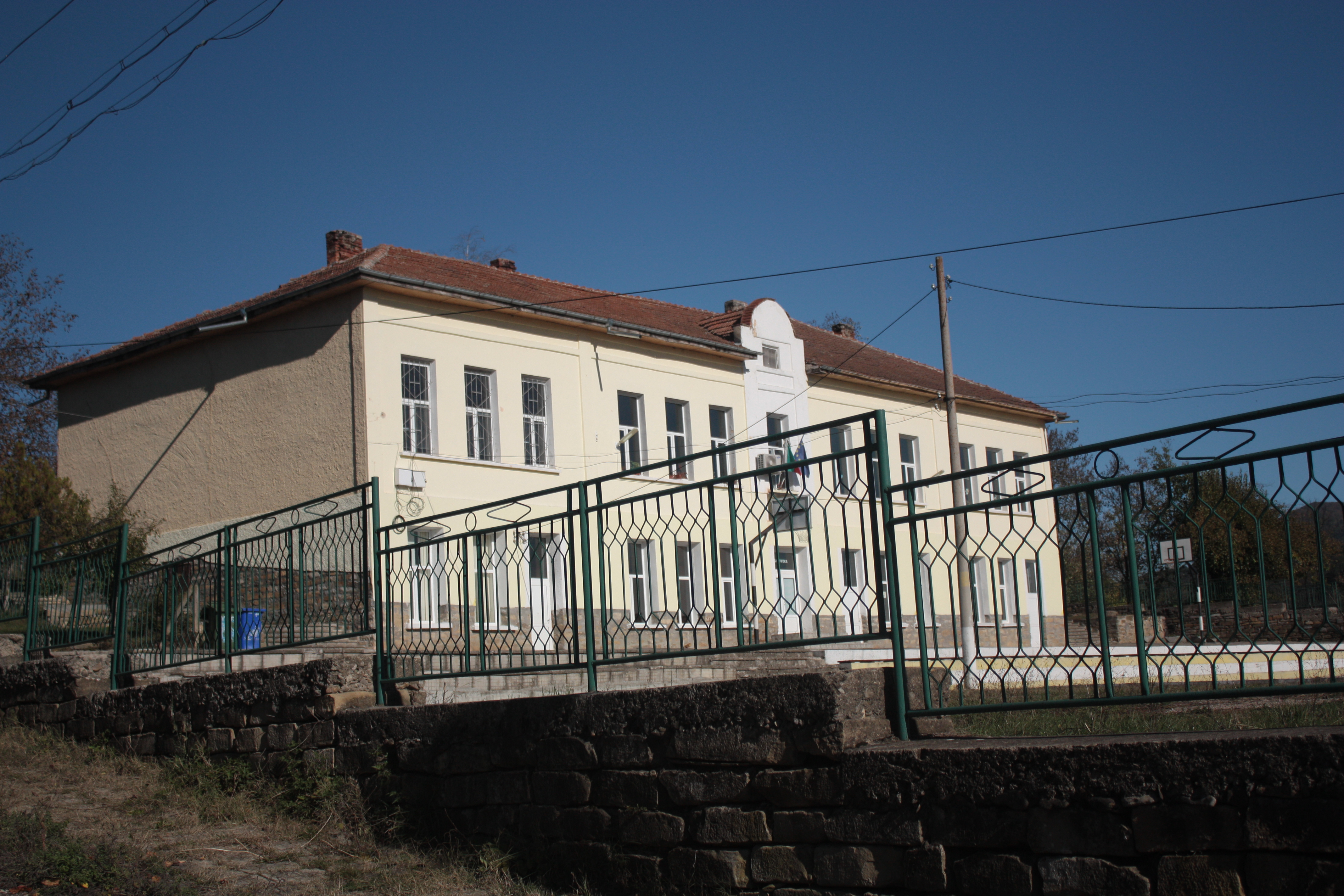 Hristo Botev School in Dzhurovo